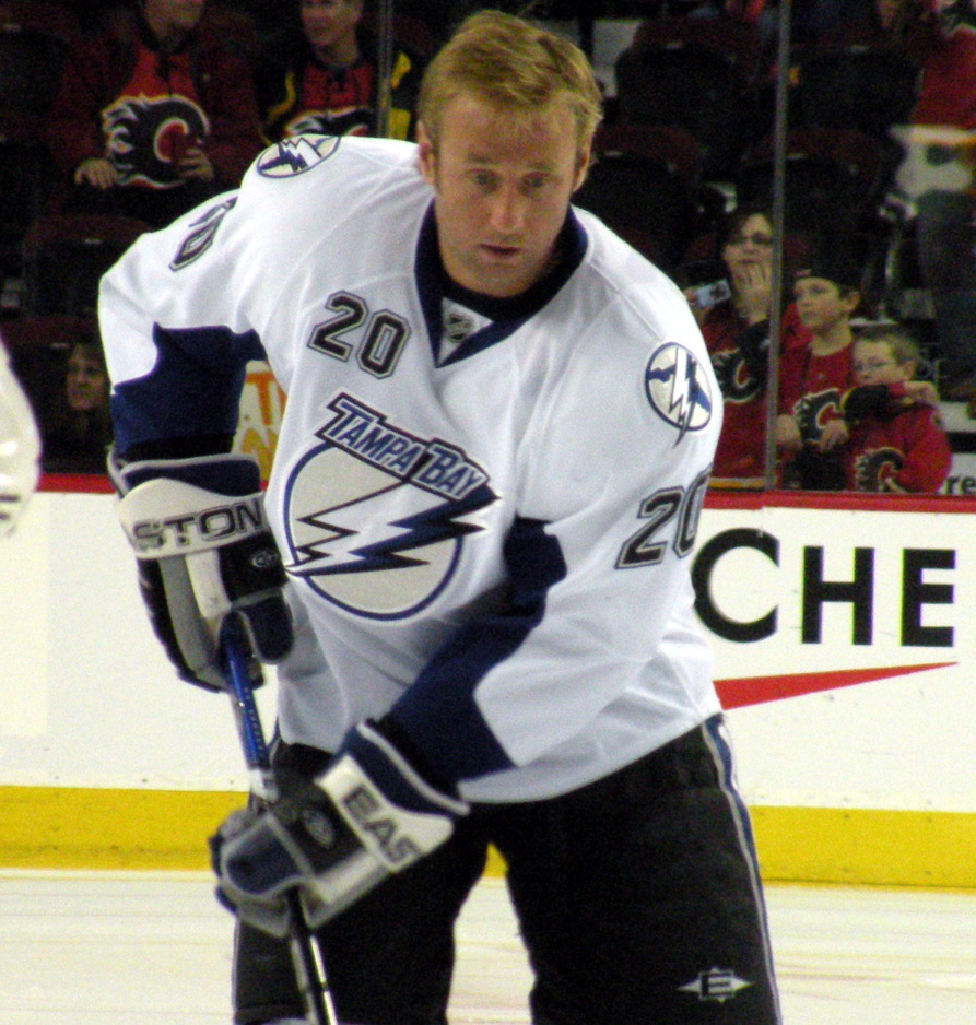 Vaclav Prospal of the Tampa Bay Lightning warming up prior to a game against the Calgary Flames in Calgary.